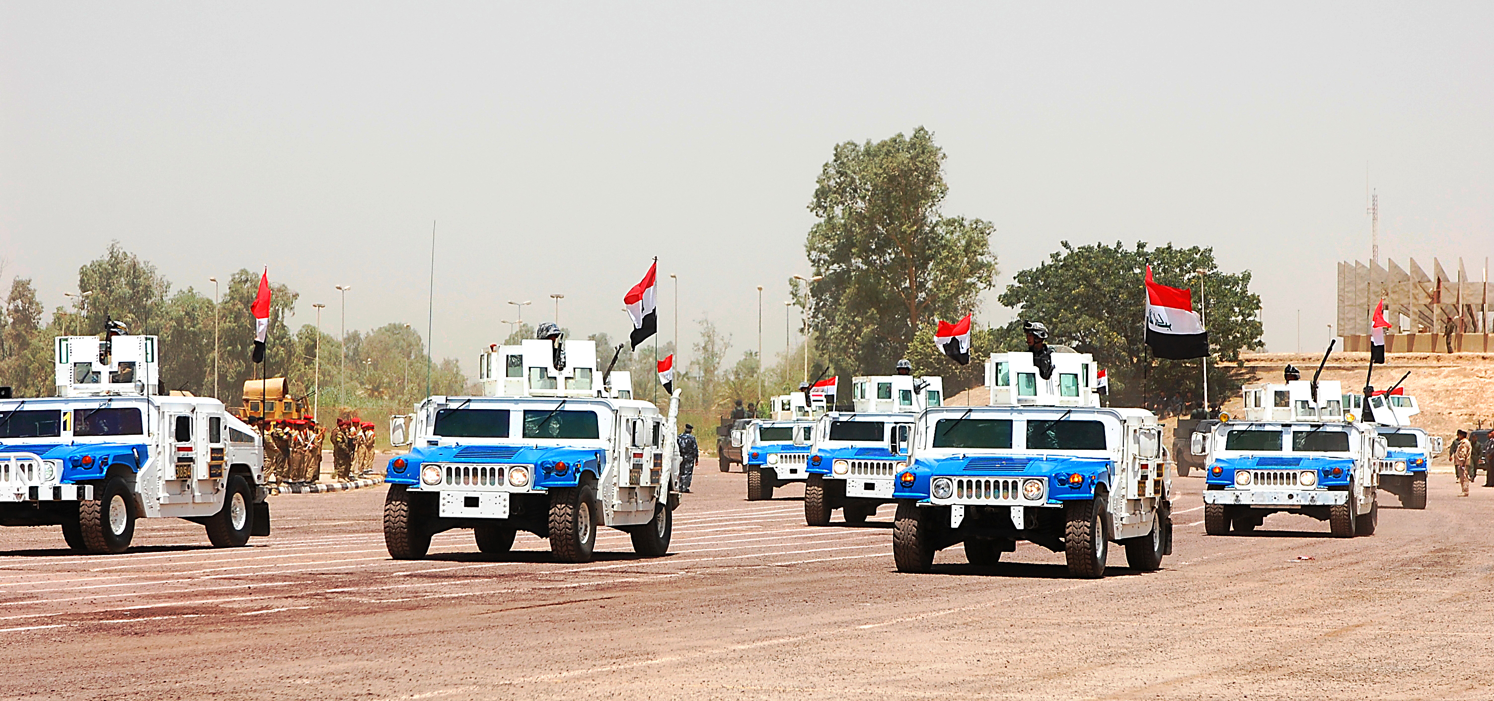 Iraqi security forces passed for review before those representing Iraqi military and civil leadership in Baghdad, June 30, 2009.